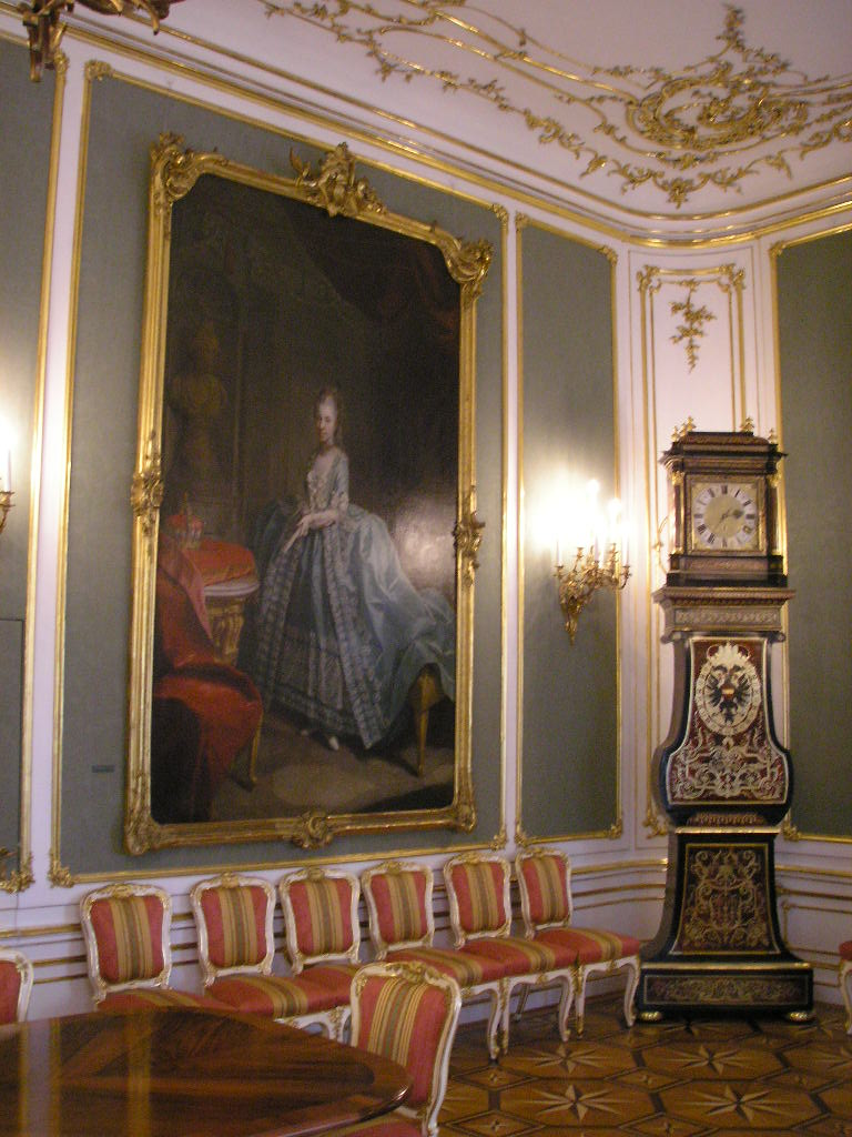 Interior view of one of the state rooms in the Leopoldinischer Trakt in Vienna's Hofburg Imperial Palace. Painting: Portrait of Maria Luisa of Spain (1745-1792) [1] Unidentified painter Description18th-century portrait painting of women, with Not identified, Unspecified, Unmentioned, Unknown or Anonymous artist, and missing year.